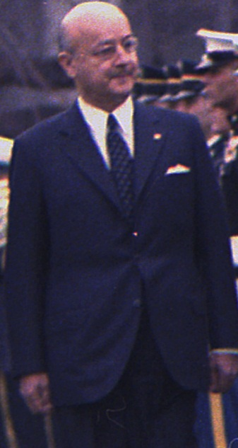 President Nixon and Prime Mnister Nihat Erim of the Republic of Turkey reviewing the troops at the welcoming ceremony on the south grounds of the White House